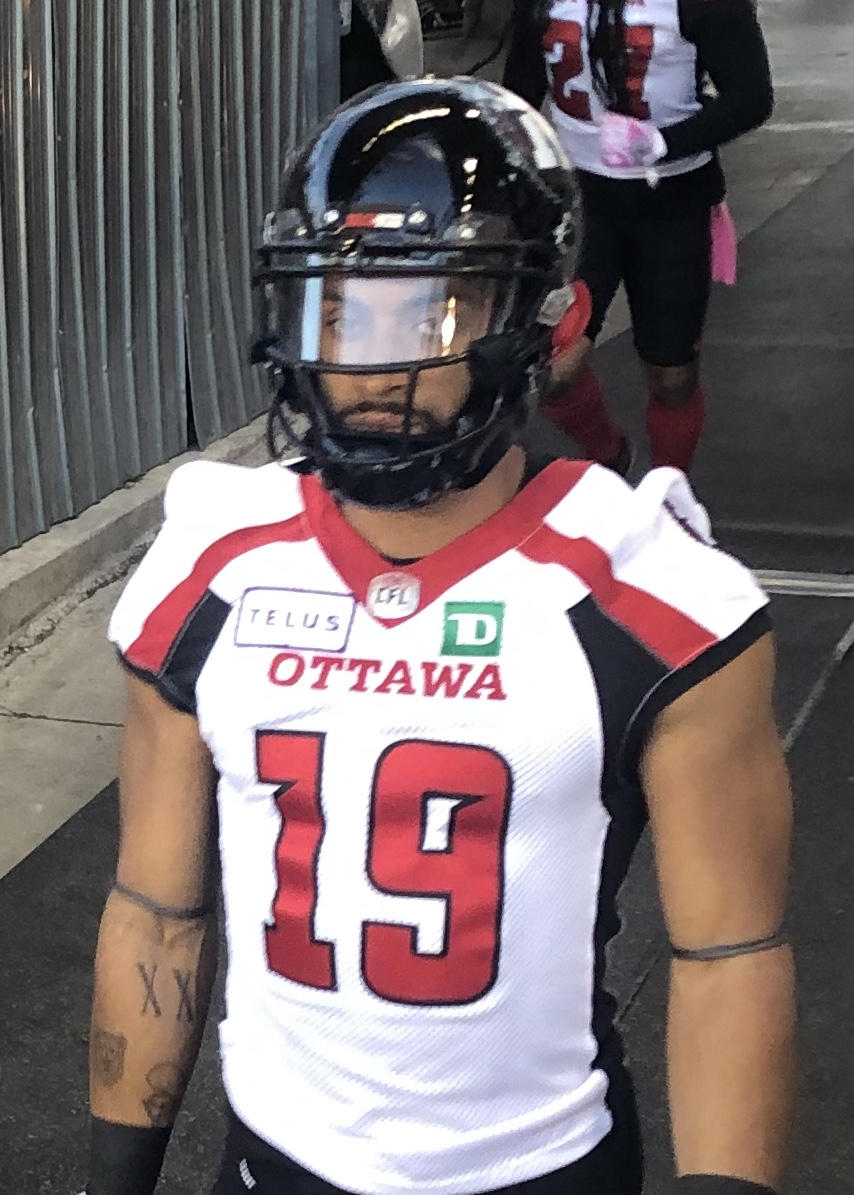 Nate Behar, receiver for the Ottawa Redblacks.